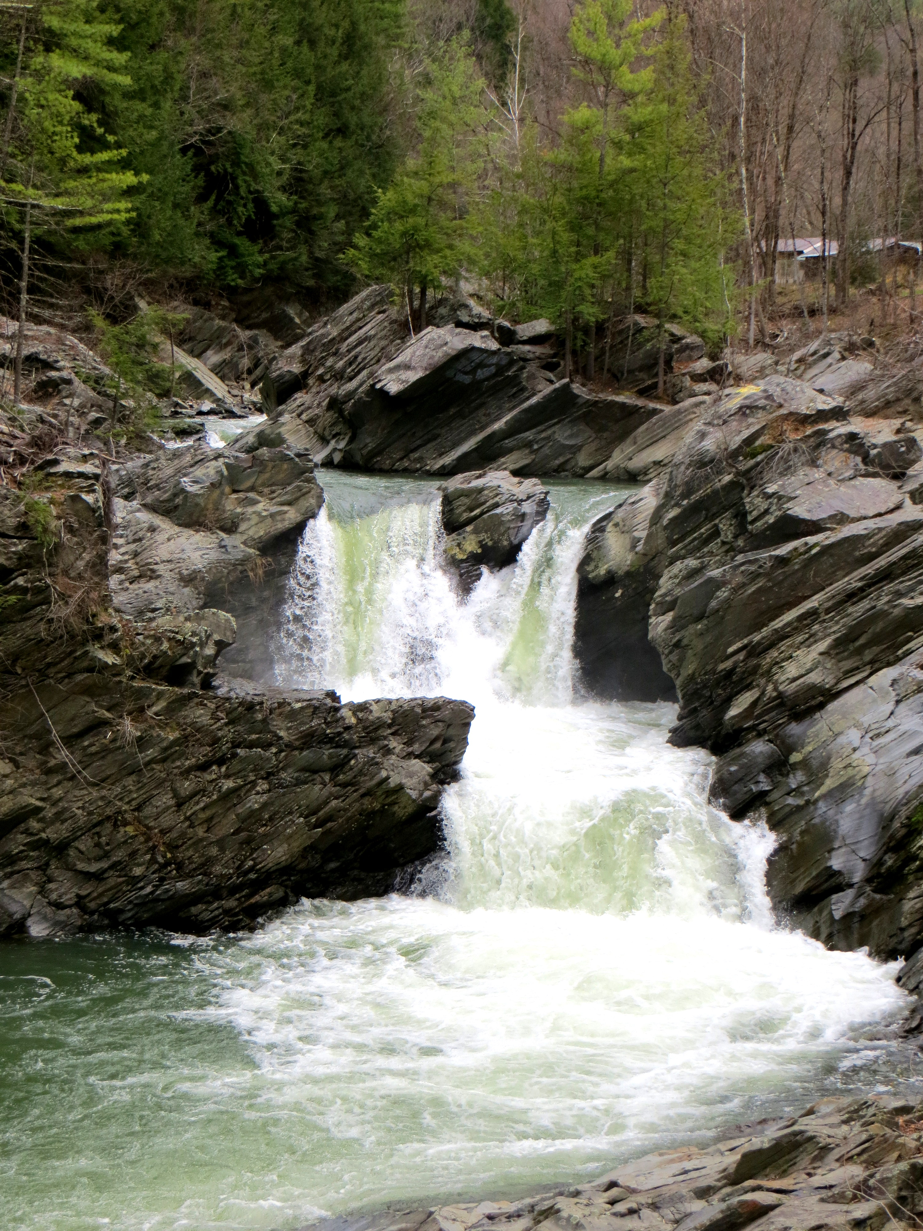 Twin Falls, on the Saxtons River in North Westminster, as seen from Forest Rd. off VT 121. There are the highest falls on this river.